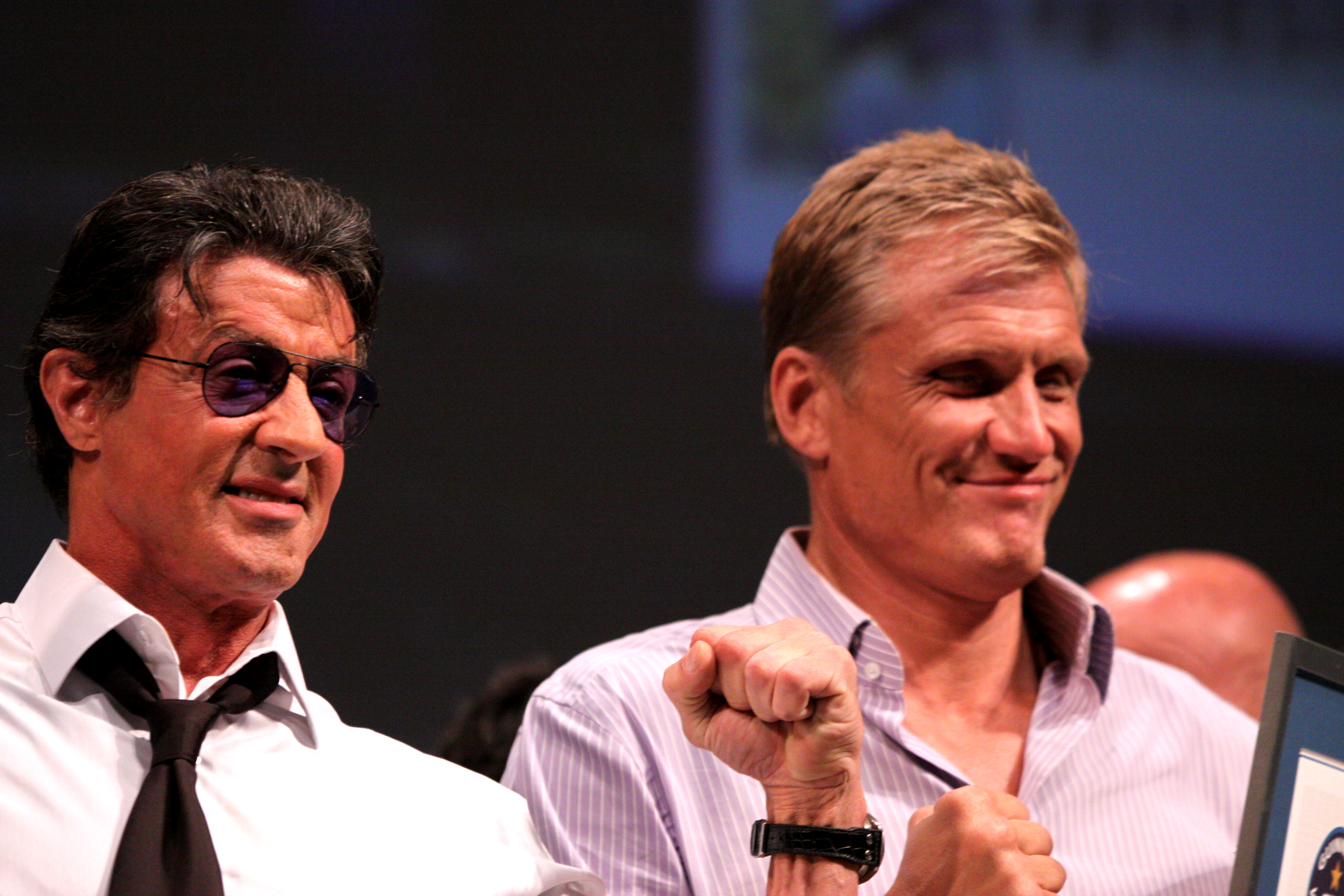 Actors Sylvester Stallone and Dolph Lundgren at the Expendables panel at the 2010 San Diego Comic Con in San Diego, California.